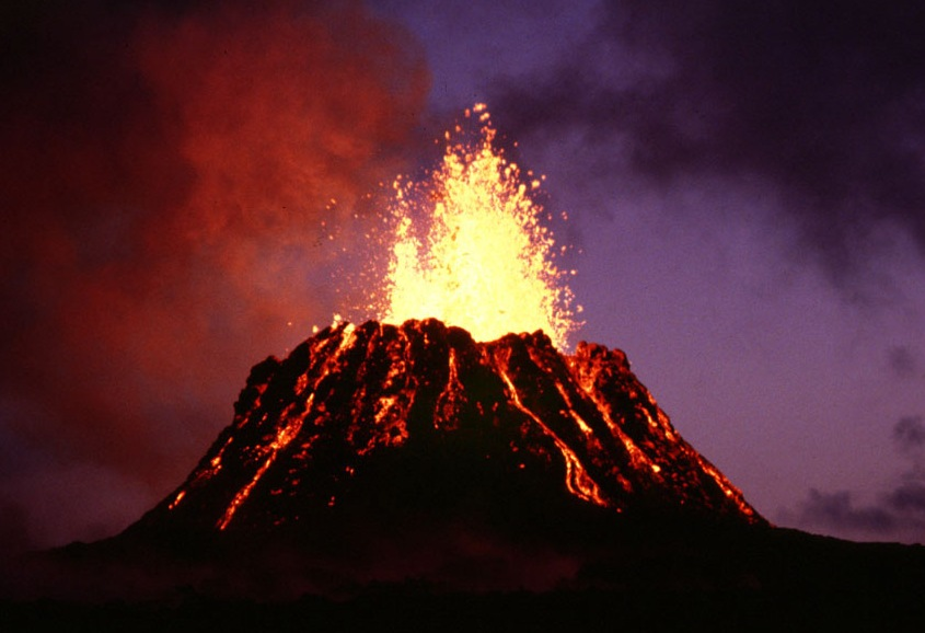 Pu'u 'O'o, a Volcanic cone on Kilauea, Hawaii.